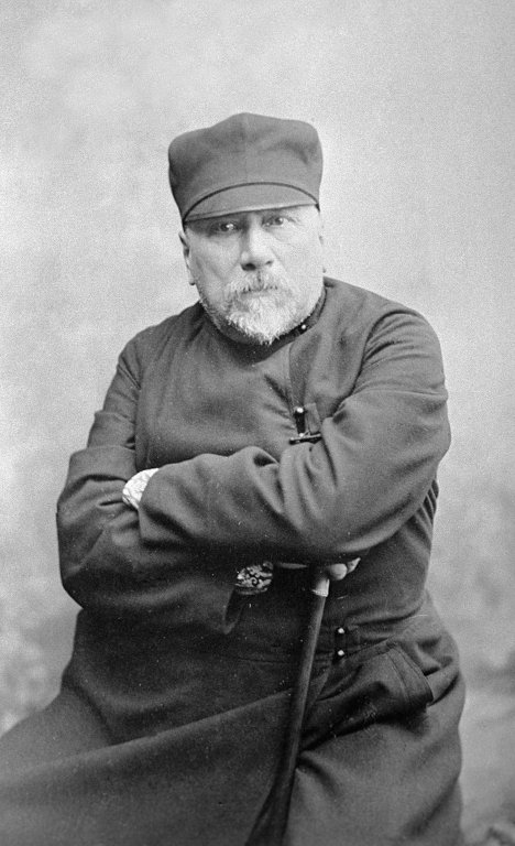 Russian author Nikolai Leskov in 1880s